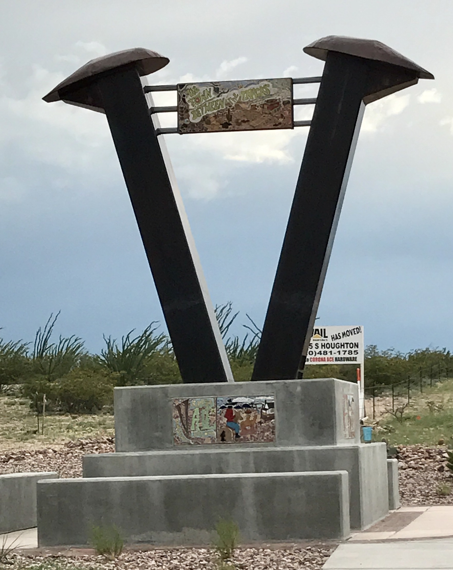 Vail, AZ sign, Railroad spikes. September 2017